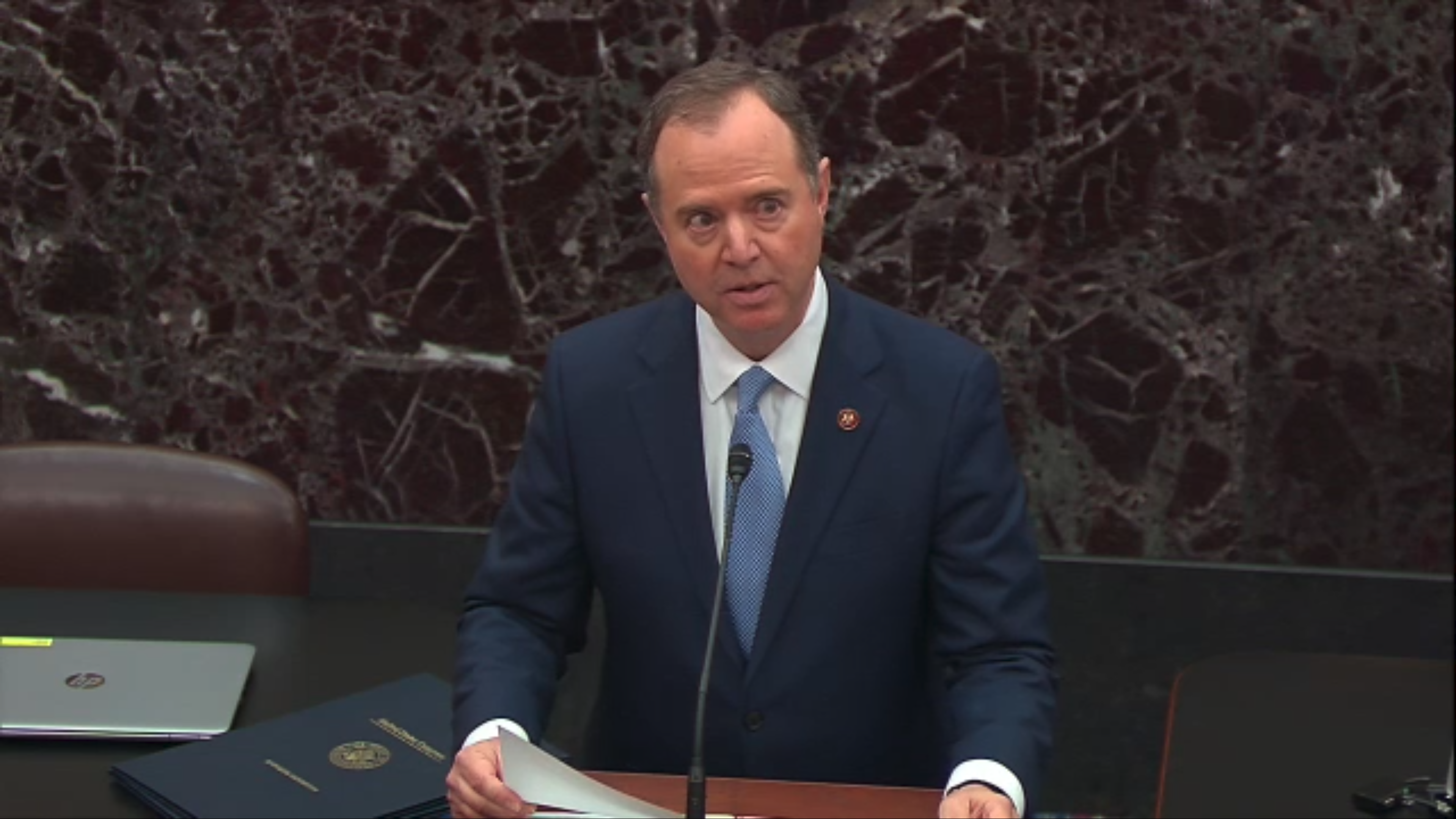 Representative Adam Schiff reads the Articles of Impeachment against President Donald Trump in the opening of the impeachment trial in the United States Senate.